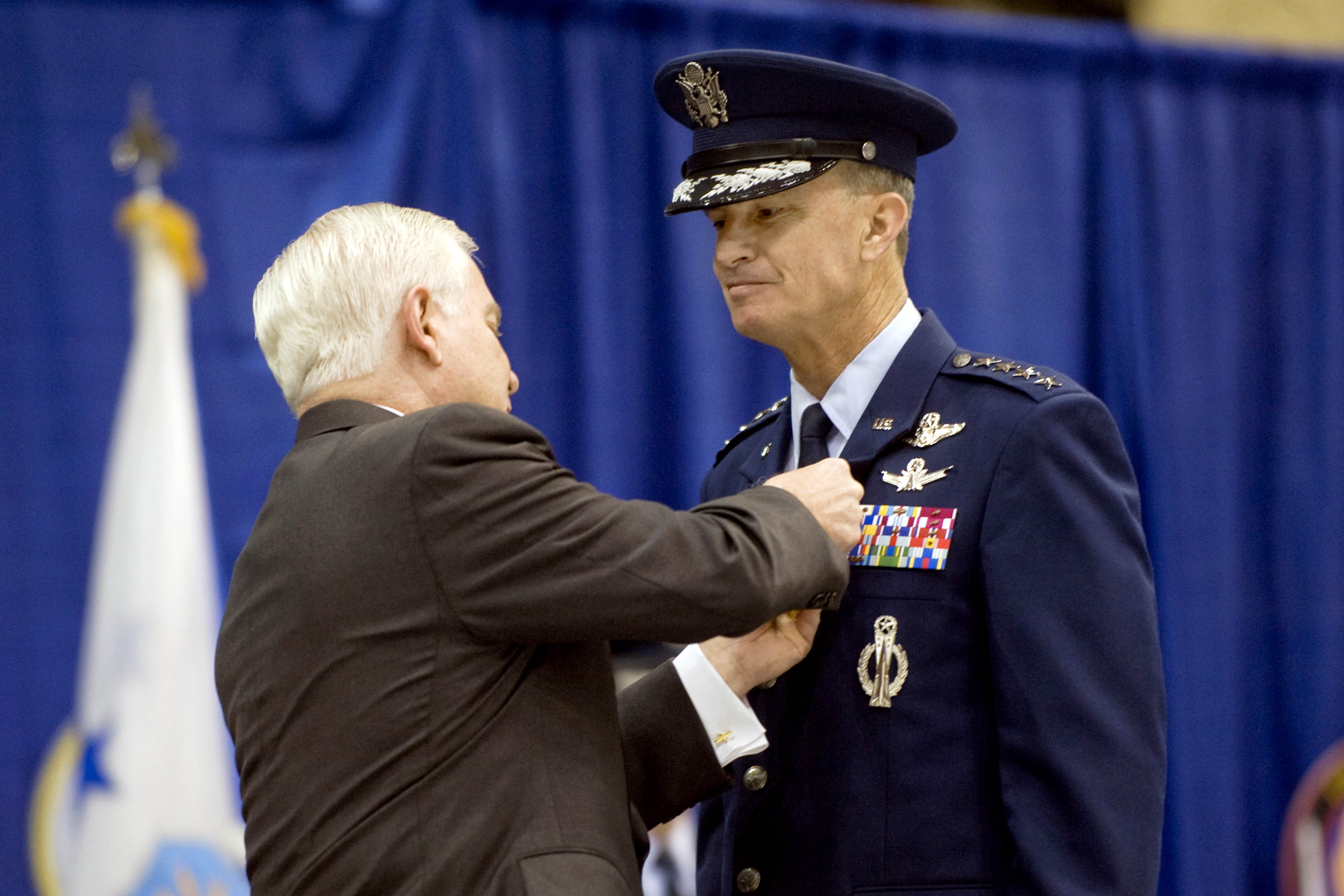 Defense Secretary Robert M. Gates presents the Defense Distinguished Service Medal to Air Force Gen. Kevin P. Chilton, outgoing commander, U.S. Strategic Command, who relinguished command to Air Force Gen. C. Robert Kehler on Offutt Air Force Base, Neb., Jan. 28, 2011.